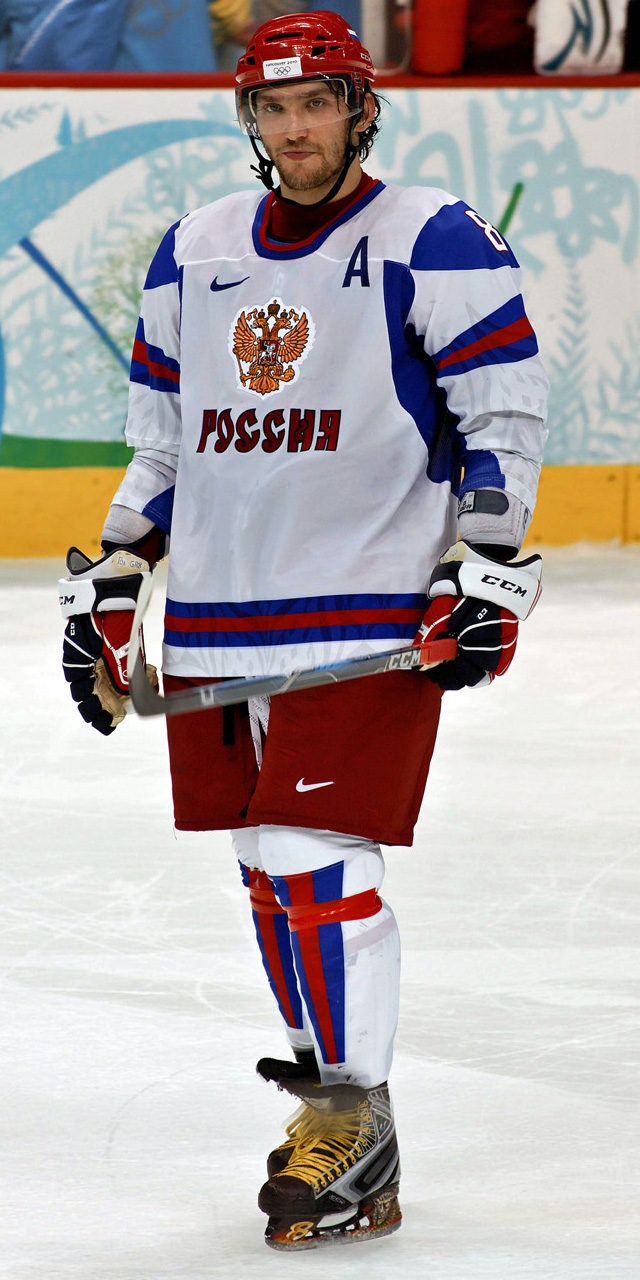 Alexander Ovechkin takes to the ice for his second of three shootout attempts at the 2010 Olympic Games. This file has been extracted from another file: AlexanderOvechkin2010WinterOlympicsshootout.jpg